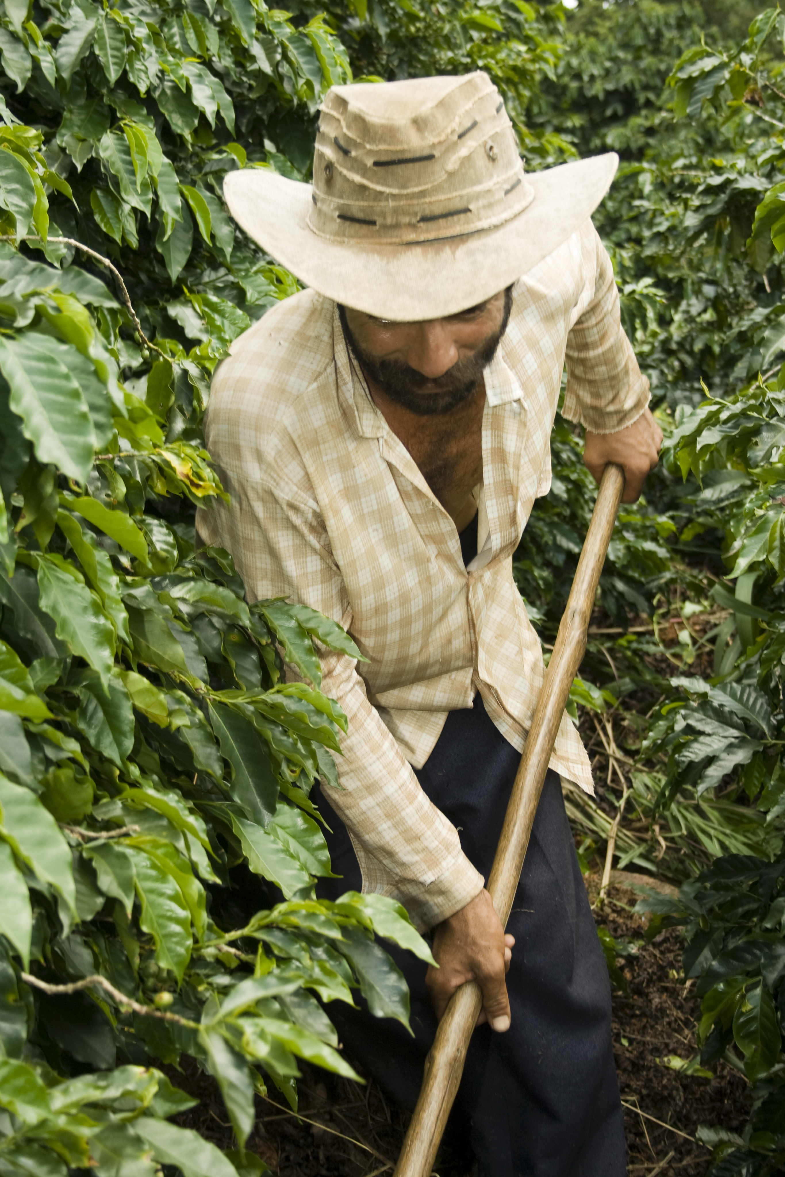 A coffee farmer in rural Brazil.